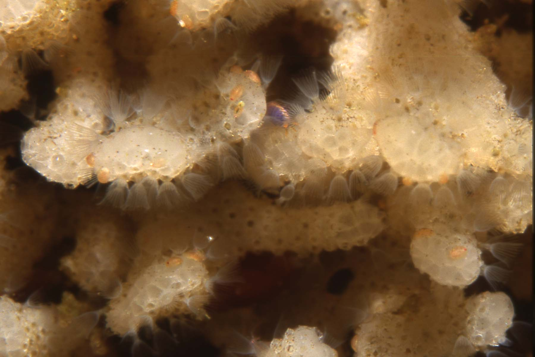 a close-up picture of the feeding apparatuses (lophophores) of a bryozoan or moss animal